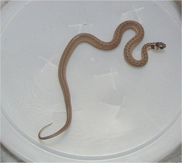 Photographer: LA Dawson Texas Brown Snake, Storeria dekayi texana